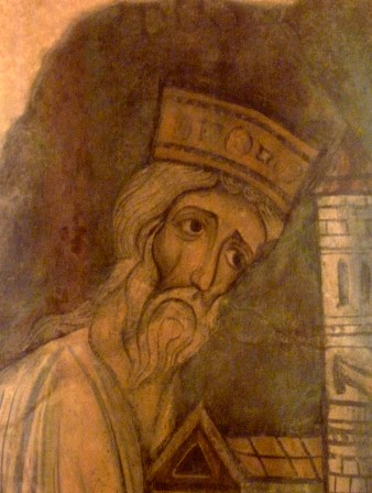 Fresco of Boso van Provence.